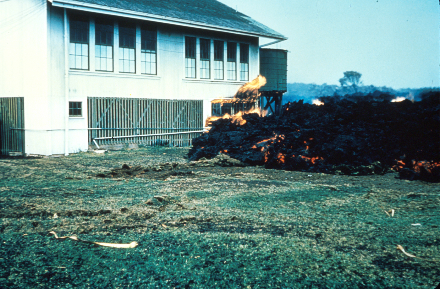 Kapoho school destroyed by lava, Hawaii, United States